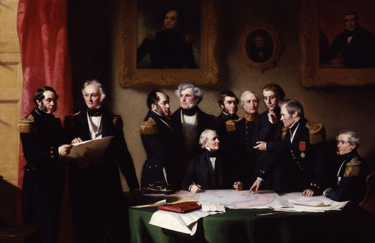 The Arctic Council planning a search for Sir John Franklin. Left to right: Sir George Back (1796-1878), Sir William Edward Parry (1790-1855), Edward Joseph Bird (1799-1881), Sir James Clark Ross (1800-1862), Sir Francis Beaufort (1774-1857), John Barrow (1808-1898), Sir Edward Sabine (1788-1883), William Alexander Baillie Hamilton (1803-1881), Sir John Richardson (1787-1865), Frederick William Beechey (1796-1856)